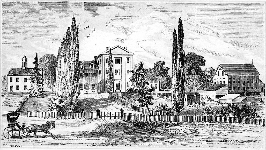 Engraving of the site of Villanova University in 1849